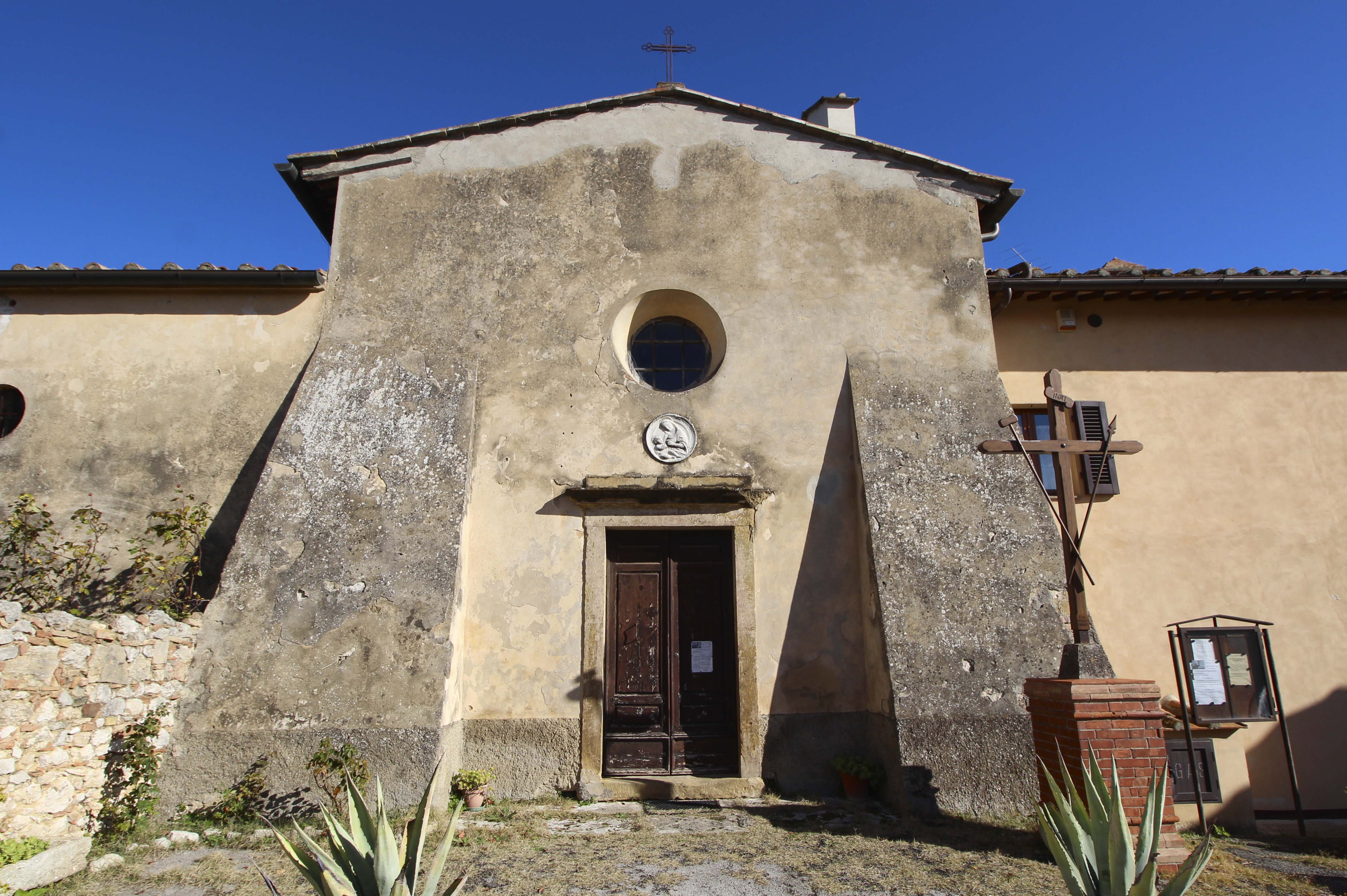 Church Santa Lucia, in Santa Lucia, hamlet of San Gimignano, Val d'Elsa, Province of Siena, Tuscany, Italy